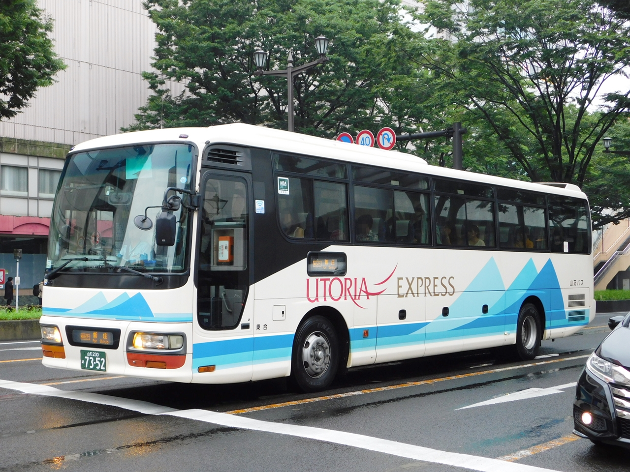 Yamako bus Isuzu Gala (KL-LV781R2)limited express "48 liner"(Sendai-Shinjo)